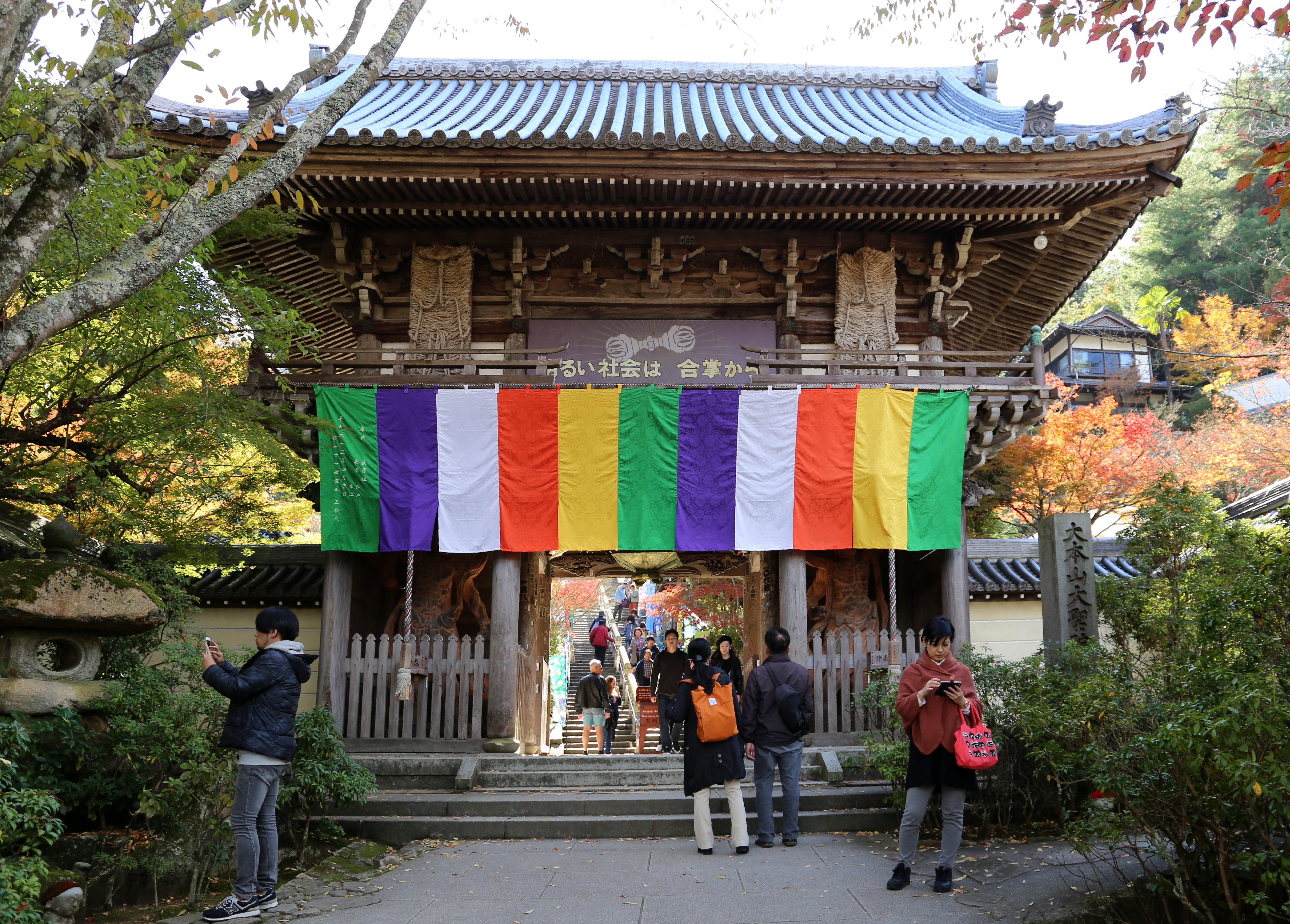 Daisho-in